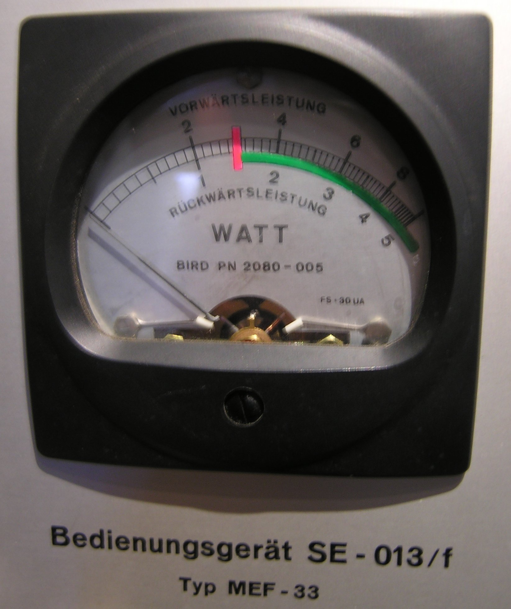 Wattmeter showing forward or reflected power, on the MEF-33 remote control unit of an SCR-522 (BC-624/625, Swiss army designation SE-013) VHF aircraft transceiver